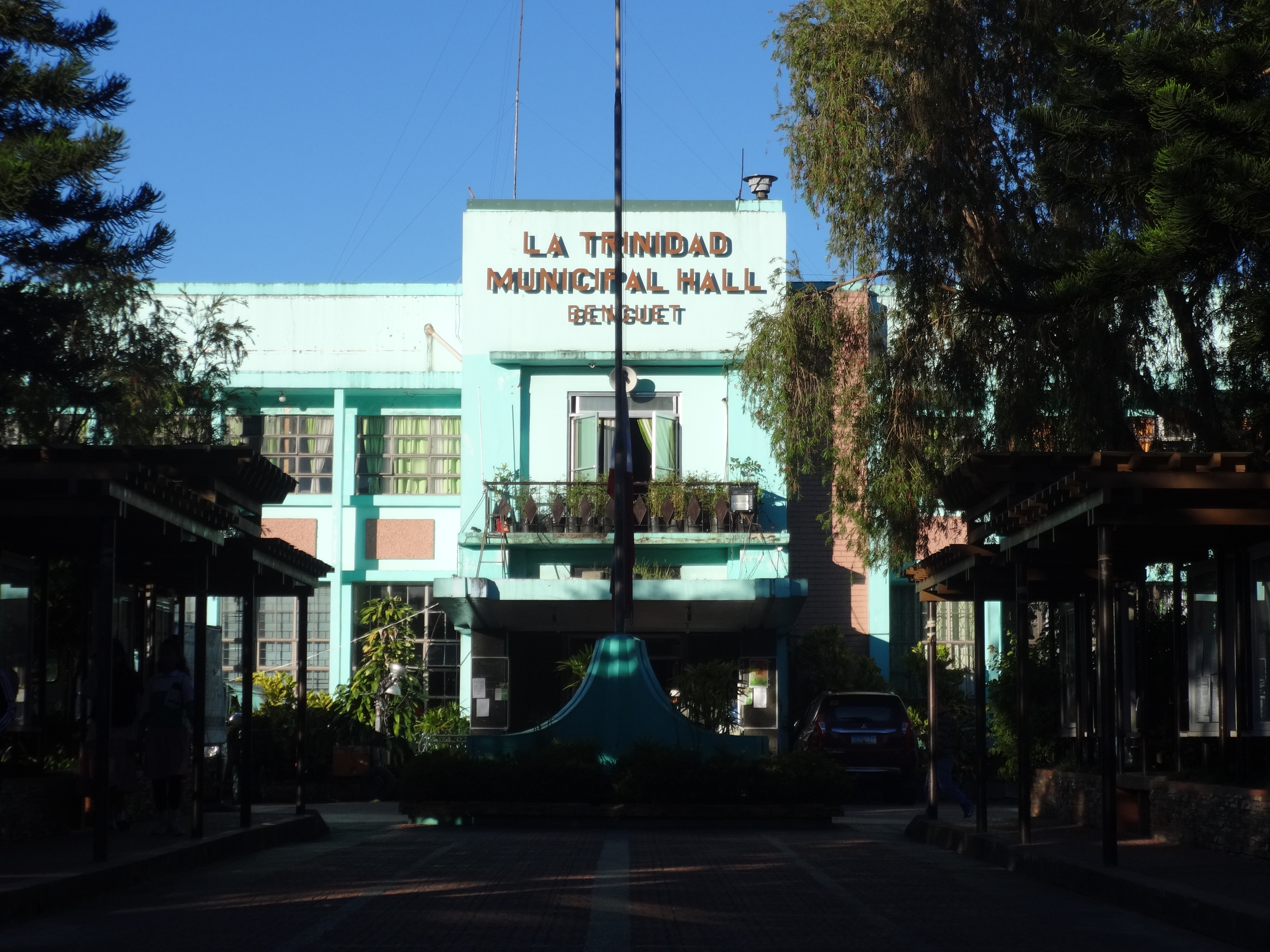 La Trinidad Public Market in Benguet